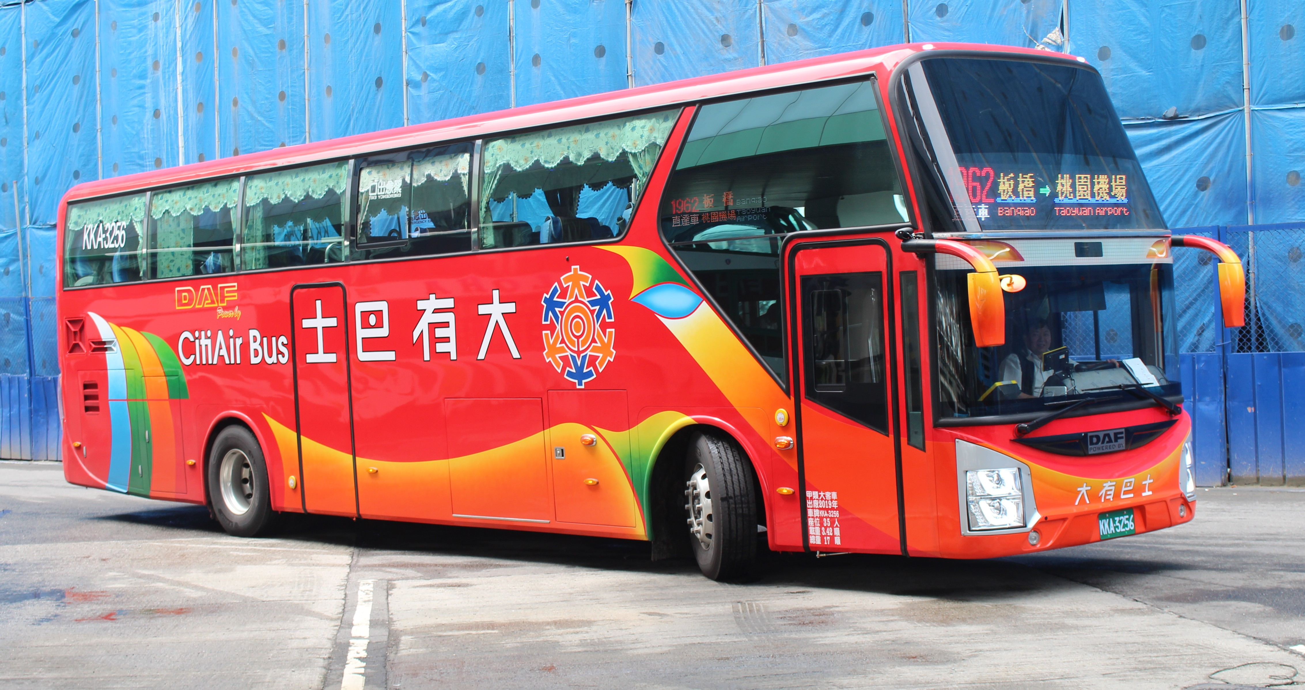 Citi Air Bus JIAMA JMH-KL DF400-6100 KKA-3256